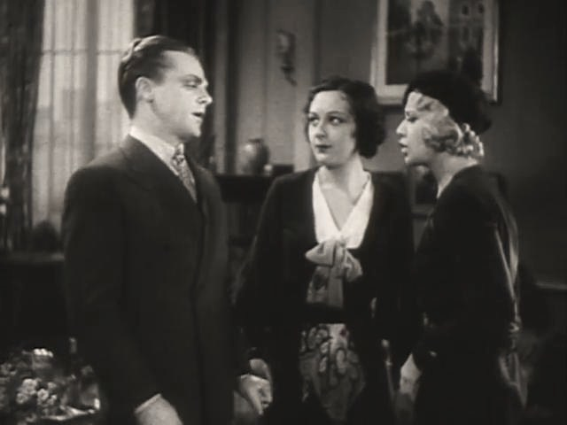 Left to right: James Cagney, Ann Dvorak, and Joan Blondell in The Crowd Roars (1932) - trailer (cropped screenshot).